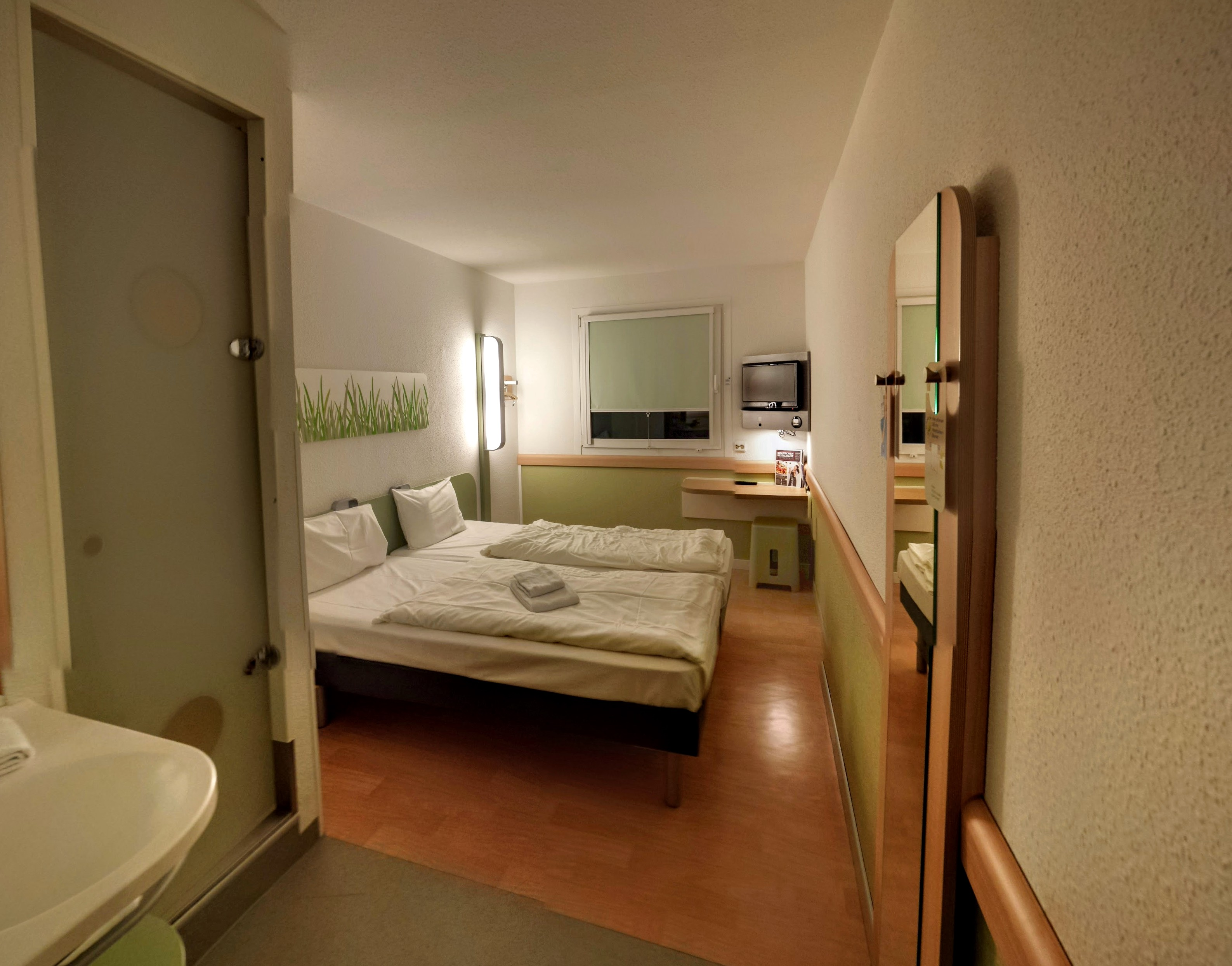 Room in an Ibis Budget hotel in Berlin